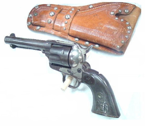 41 Caliber Colt Single Action used in the Gerald and Brann Duels